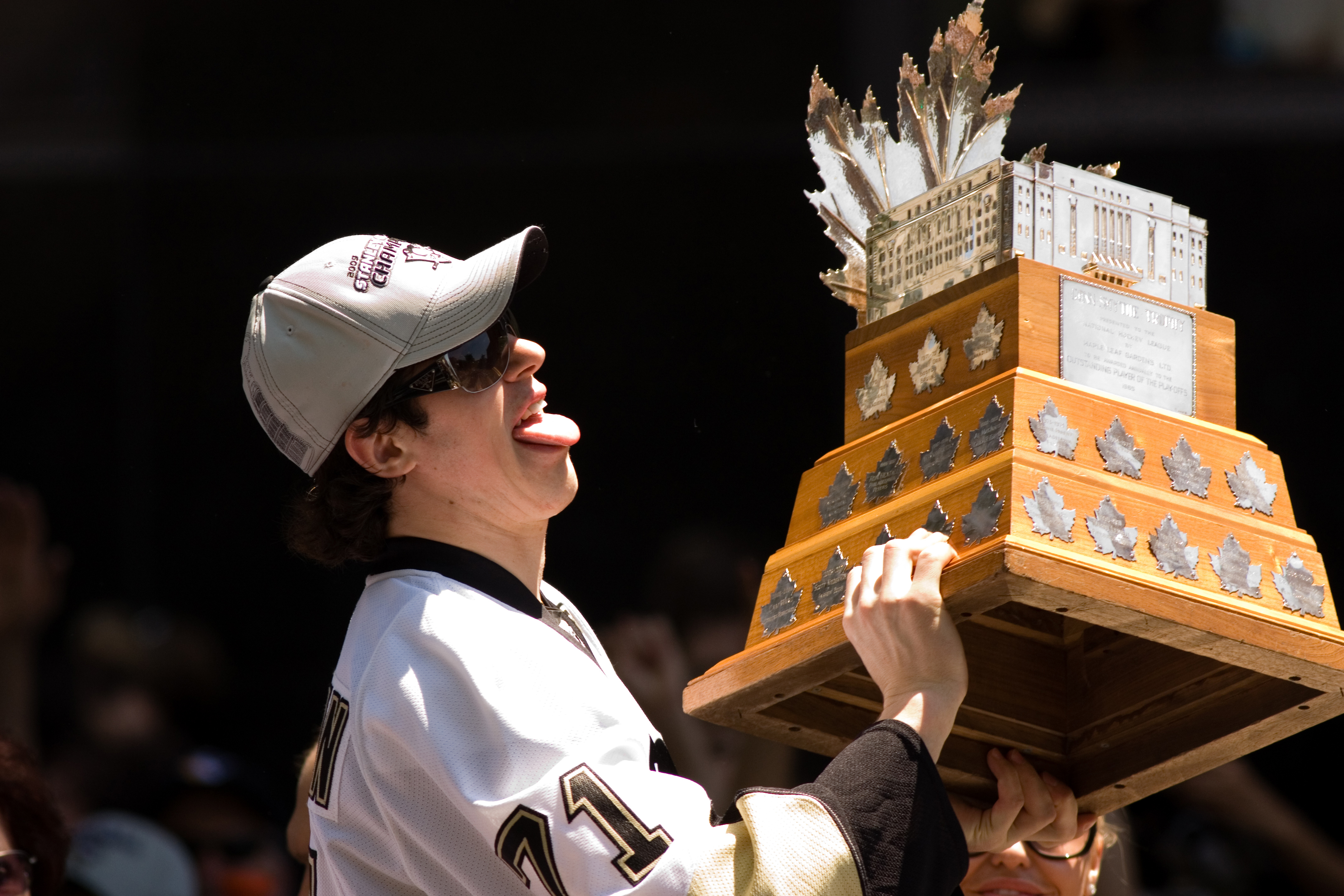 Malkin and Conn Smyth Trophy